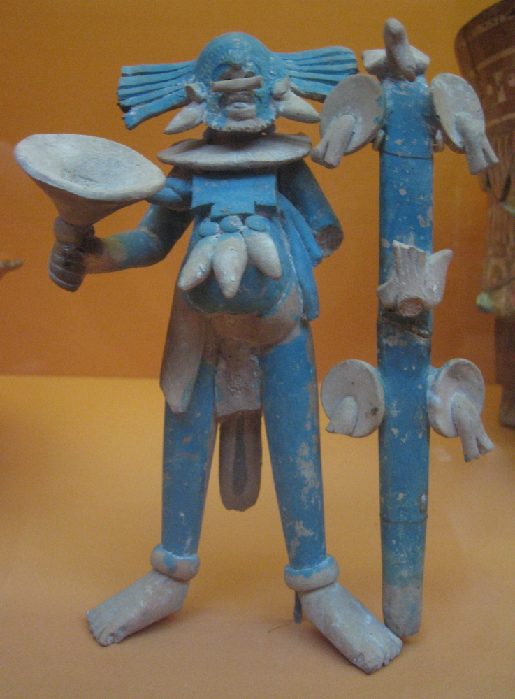 Mexico, Campeche, Jaina, Maya Masked Male Figure, A.D. 700-900 Sculpture, Ceramic with post-fire applied pigment, a) Figure: 7 1/4 x 4 1/2 x 2 3/4 in. (18.42 x 11.43 x 6.99 cm); b) Headdress: 1 3/4 x 2 3/4 x 7/8 in. (4.45 x 6.99 x 2.22 cm); c) Staff: 7 x 2 x 1 3/8 in. (17.78 x 5.08 x 3.49 cm) Gift of John Gilbert Bourne (M.76.157) Wikipedia Loves Art at the Los Angeles County Museum of Art This photo of item # M.76.157 at the Los Angeles County Museum of Art was contributed under the team name "artifacts" as part of the Wikipedia Loves Art project in February 2009. Los Angeles County Museum of Art The original photograph on Flickr was taken by Beesnest McClain—please add a comment to the original Flickr page whenever a use has been made on Wikipedia or another project. Project galleries on Flickr: this institution, this team